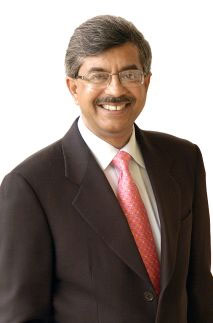 Genpact CEO Photograph